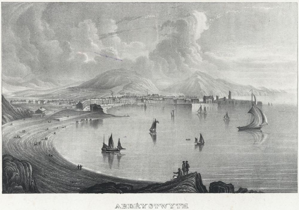 Looking south over bay, ships.